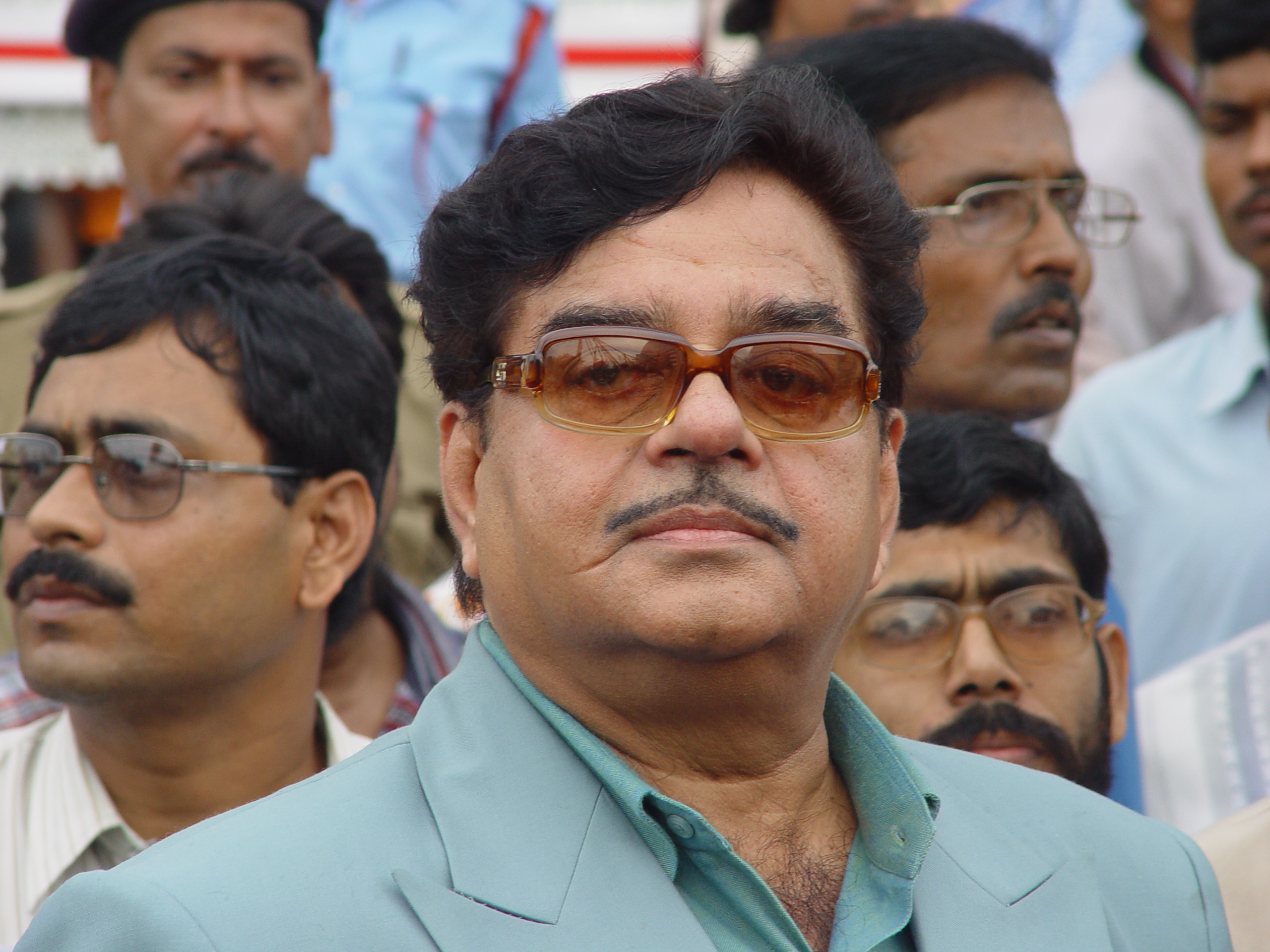 Actor turned minister